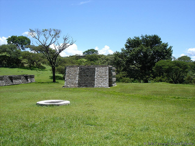 Temple platform B-X 3 at Mixco Viejo, Chimaltenango Department, Guatemala.